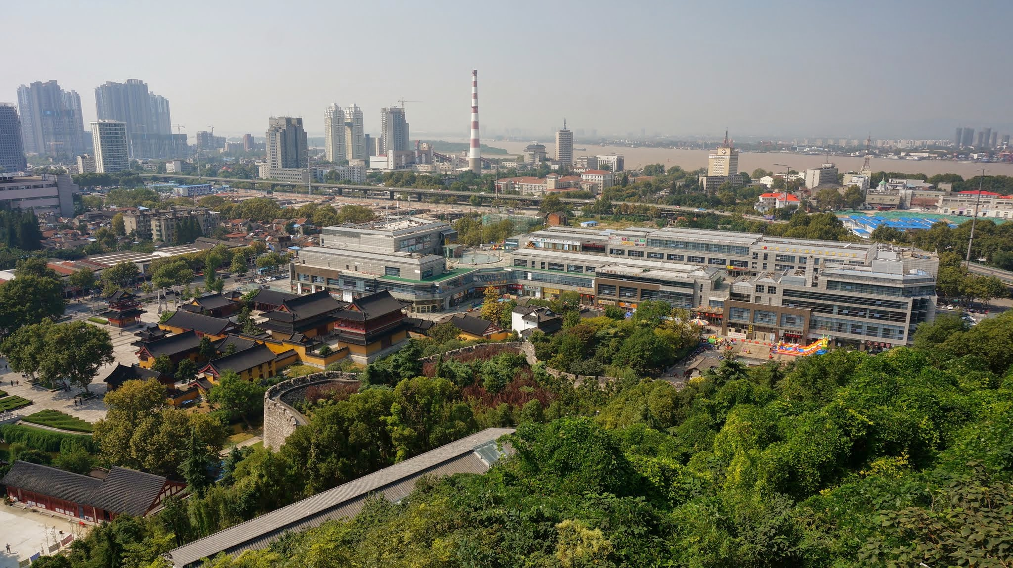 Gulou, Nanjing, Jiangsu, China.